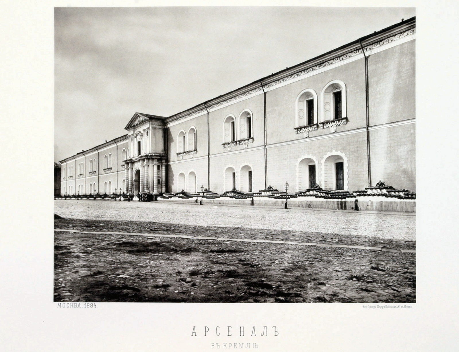 Plate 36: Arsenal (in Moscow Kremlin).